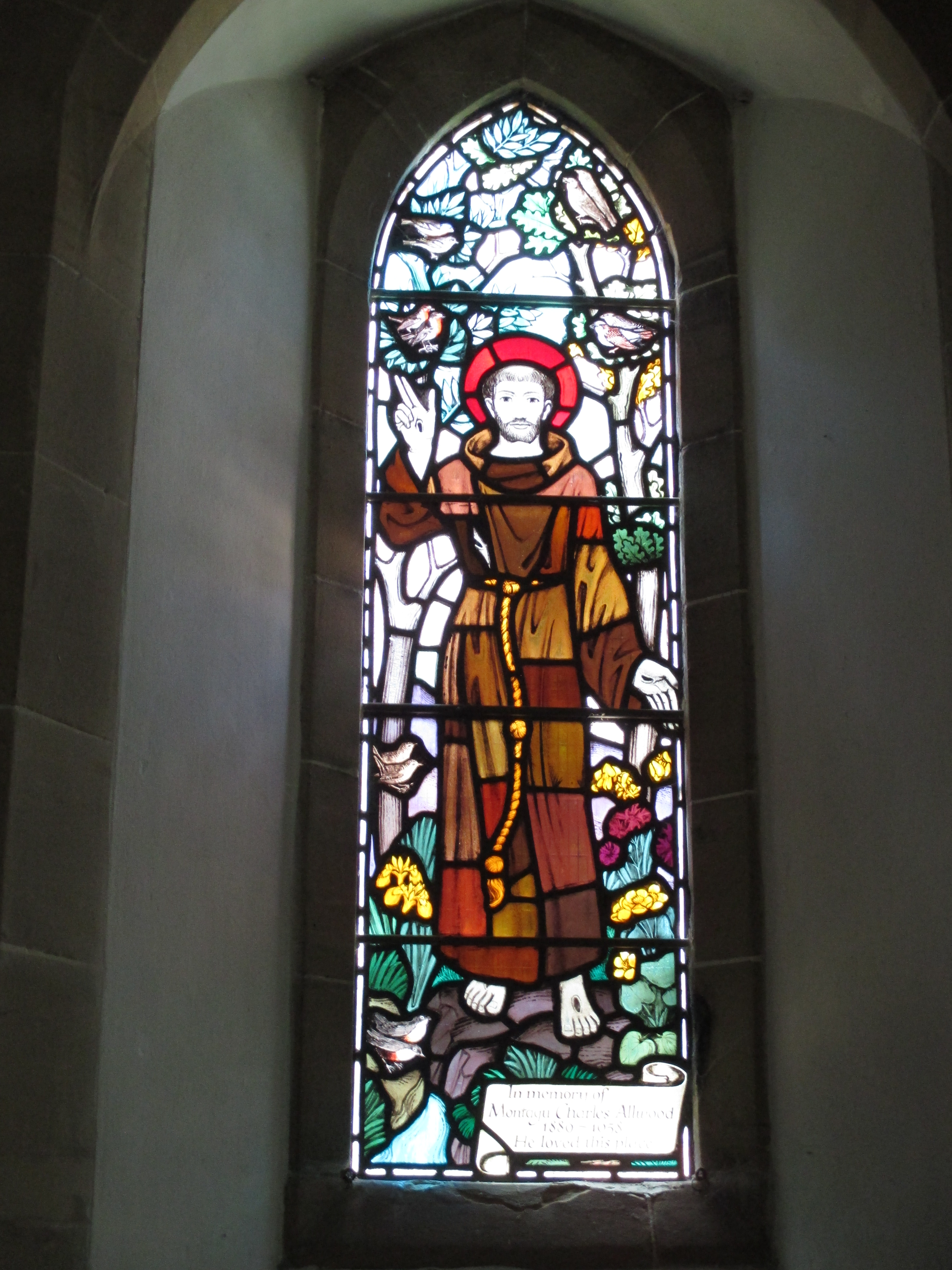 First north aisle window, Wivelsfield parish church, East Sussex. It was designed by Francis Spear c. 1958.